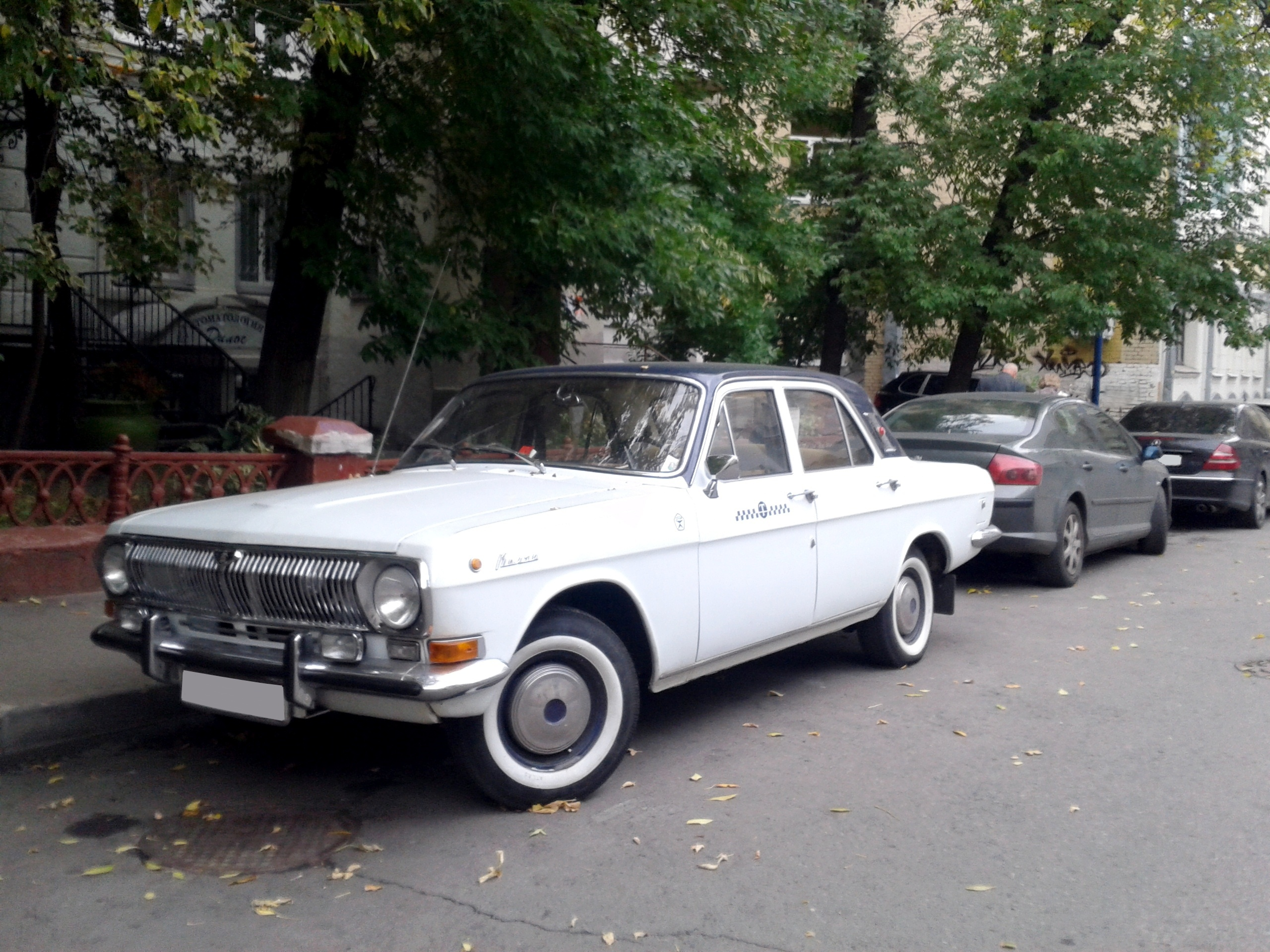 Volga GAZ-24 taxi edition.